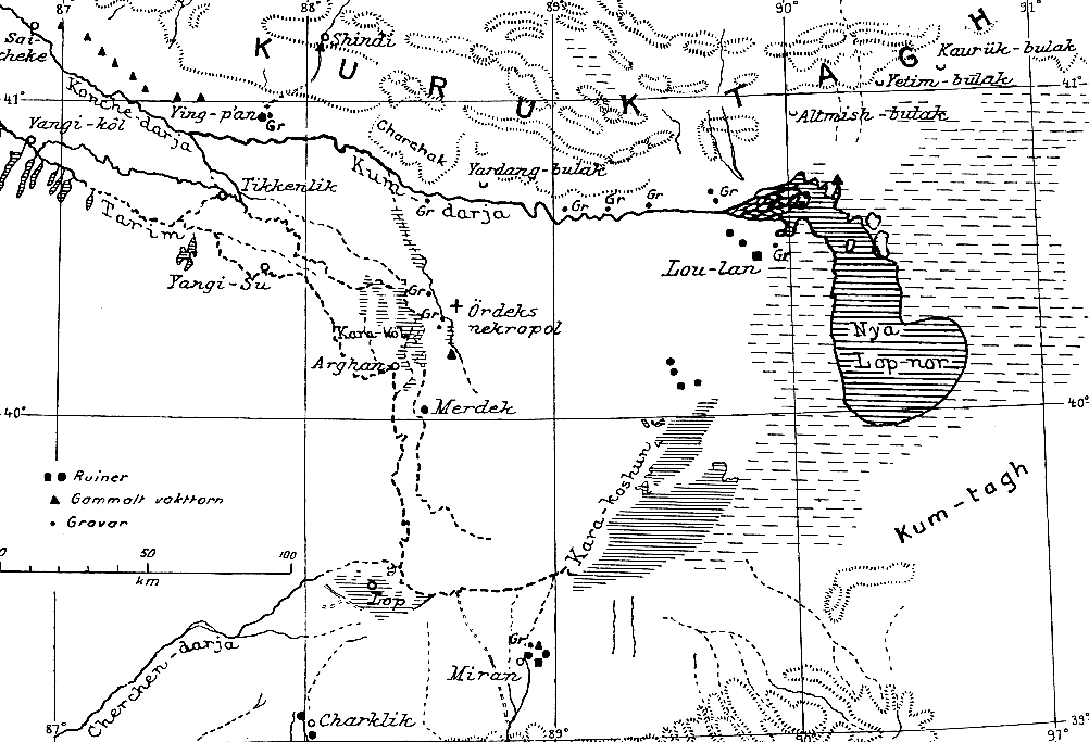 Map of the Lop Nur region, Xinjiang, China mainly after A. Herrmann by Folke Bergman 1935. Translations: Ruiner=ruin. Gammalt vakttorn=watch-tower of the Great Wall of China. Grovar=grave. Bulak=well. Ördeks nekropol=cemetery founded by Ördek; new name: Xiaohe Tombs. Nya Lop-nor=Lop Nur sea in the time 1921 – 1971.